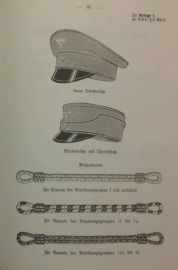 Uniform regulations for the Deutsche Reichsbahn 1938 Uniform regulations for the Deutsche Reichsbahn 1938